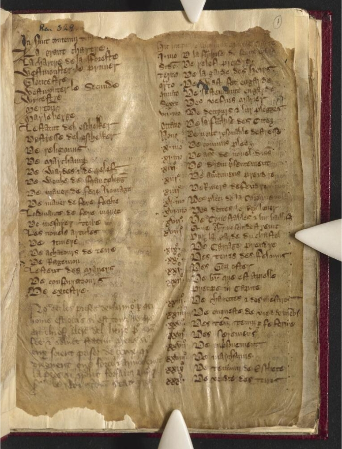 Page 1 of Peniarth MS 329 (Ancient laws). In July 2010, the Peniarth Manuscripts Collection was included on the UNESCO UK Memory of the World Register.